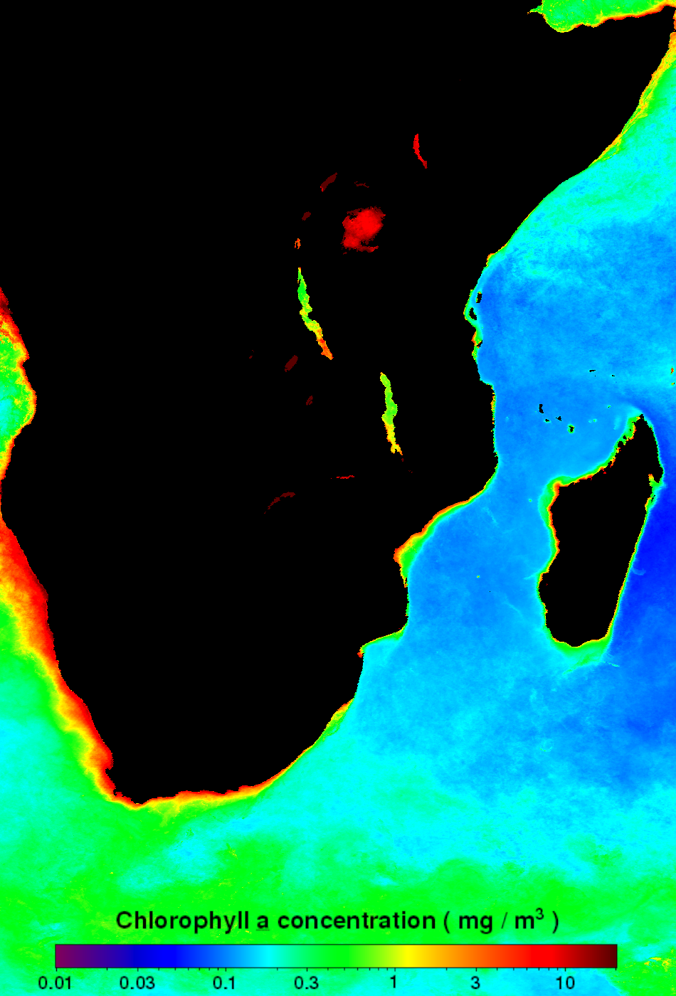 Mean Chloraphyl A concentrations in the Agulhas Current for 2009